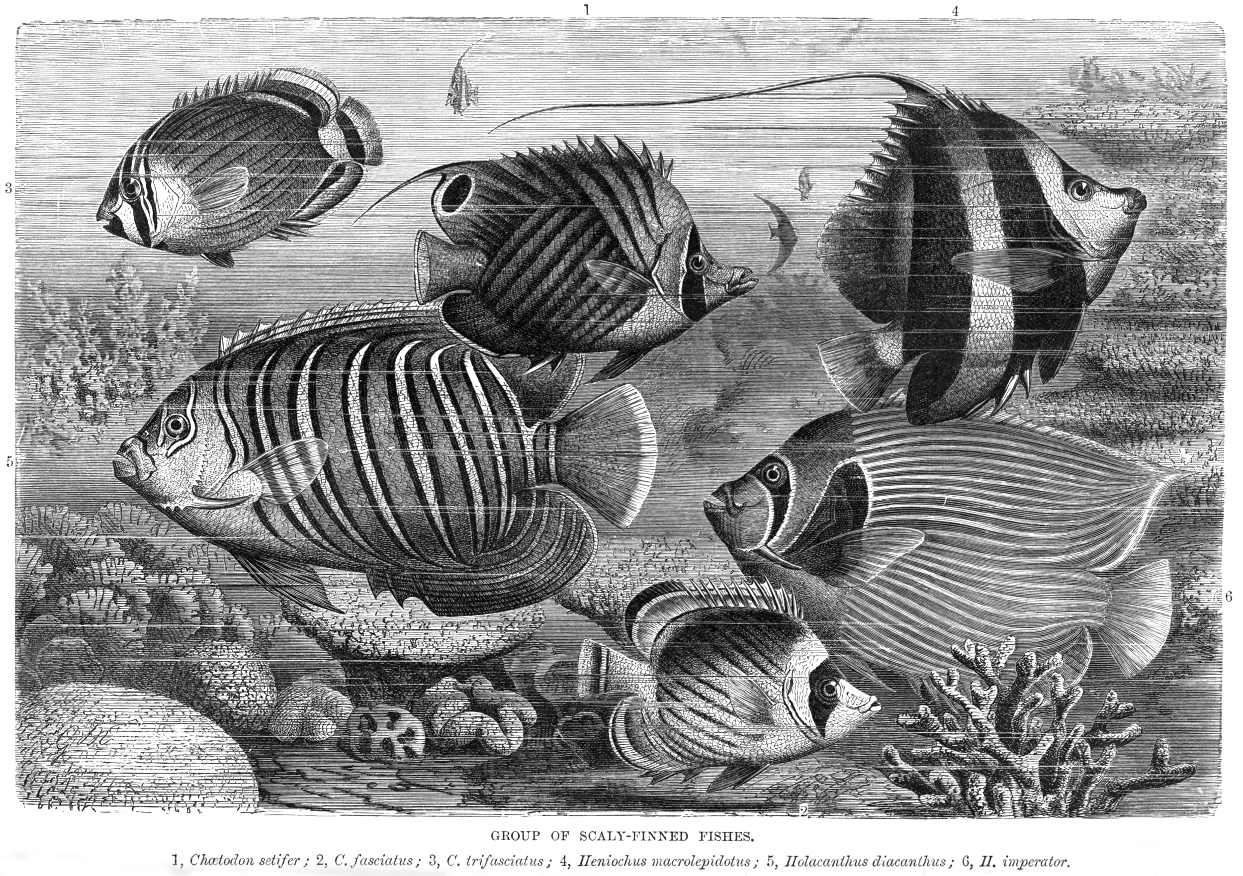 Various examples of butterflyfishes (Chaetodontidae)